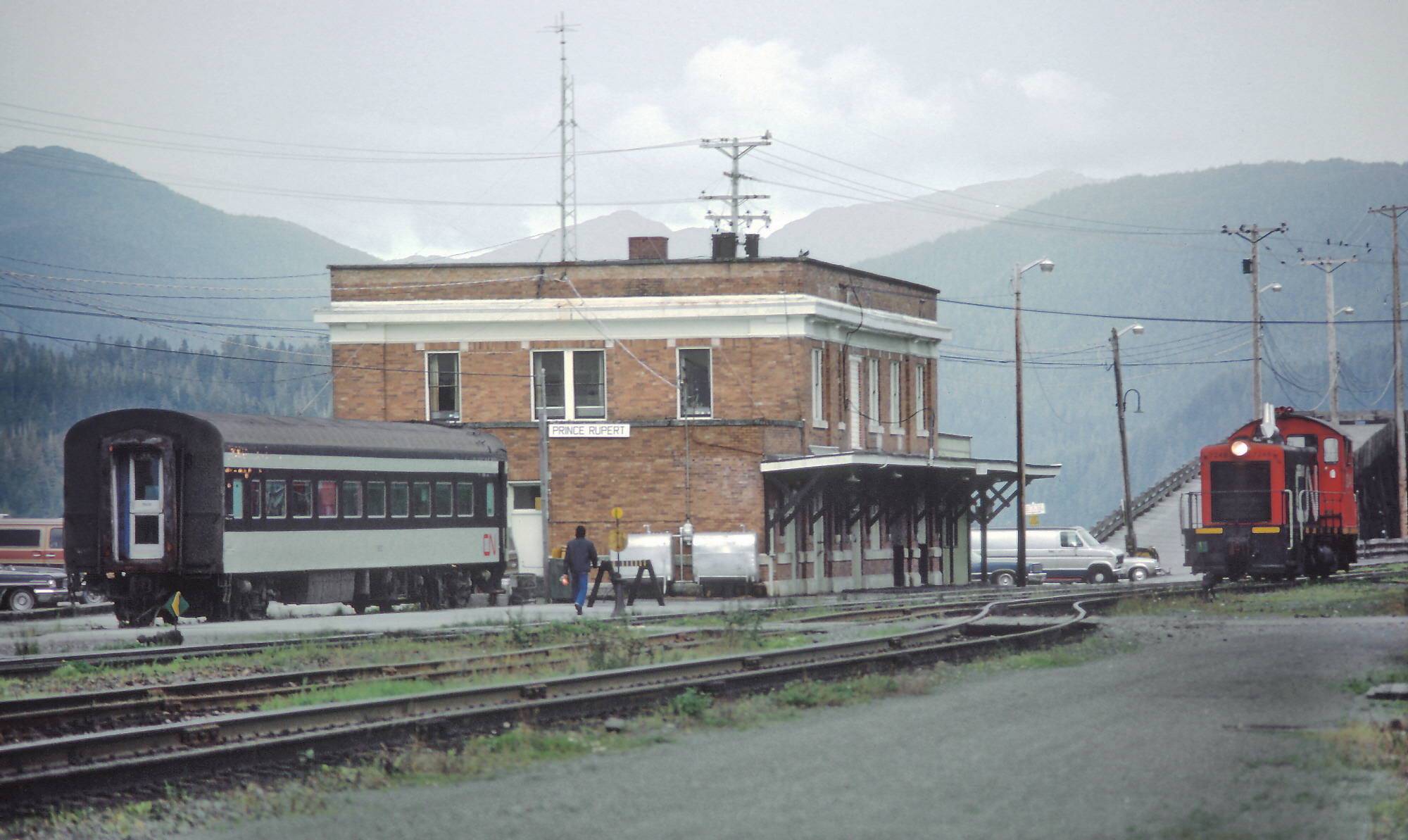 A photo at CN's Prince Rupert, BC yard in October 1979. This is where the Skeena overnights.